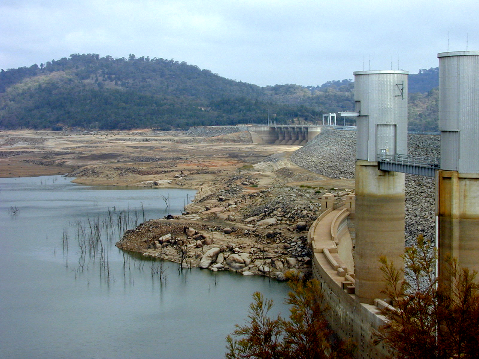 Wyangala Dam, New South Wales. This view was taken from the northwest, and shows the rear of the dam wall in the middle distance, with the coffer dam (normally completely submerged) immediately to the right. The picture dates to July 2003, and shows the effects of sustained drought on Lake Wyangala, which stops several kilometres short of the main spillway.